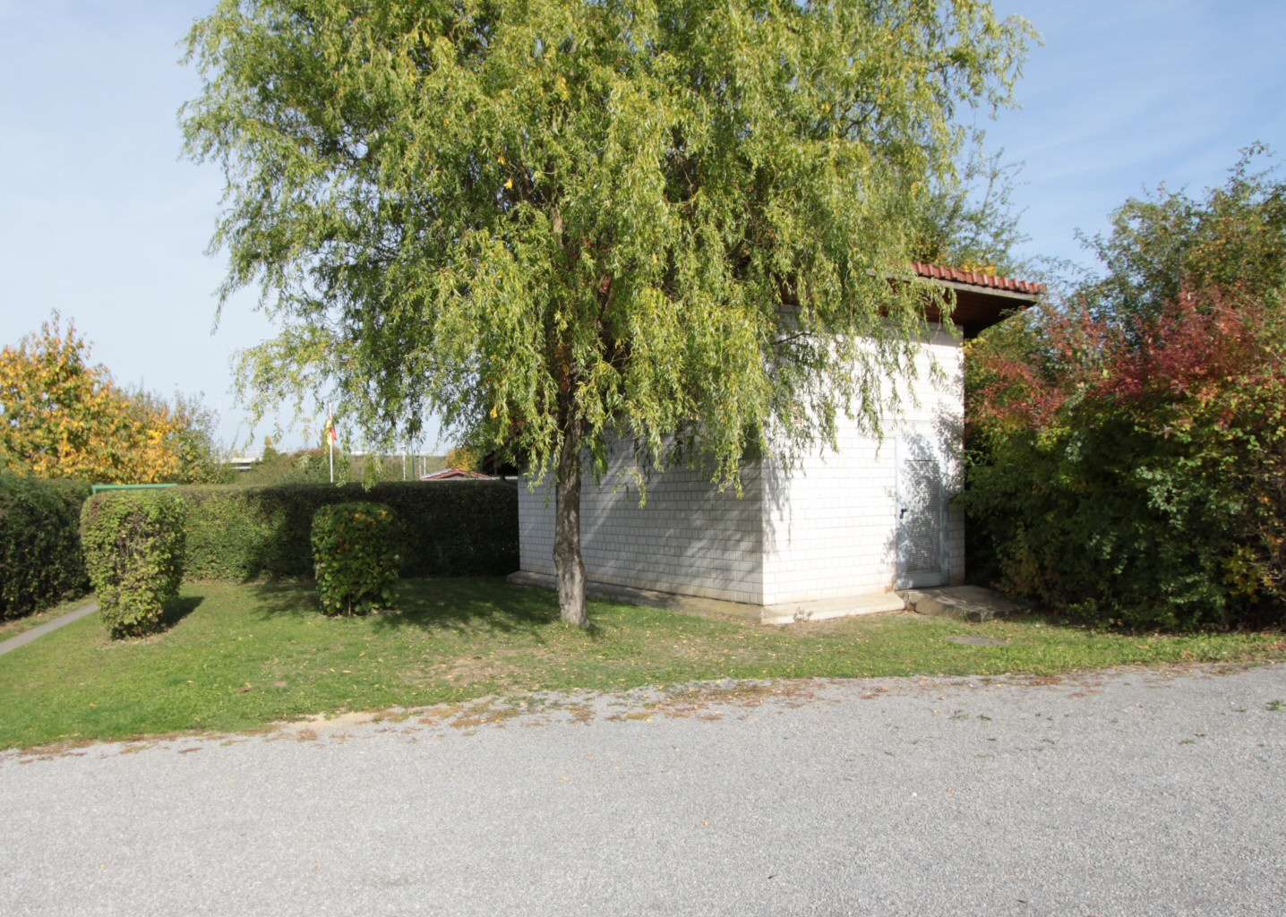 The southeast emergency exit of Langes Feld Tunnel, Mannheim-Stuttgart high-speed railway line.